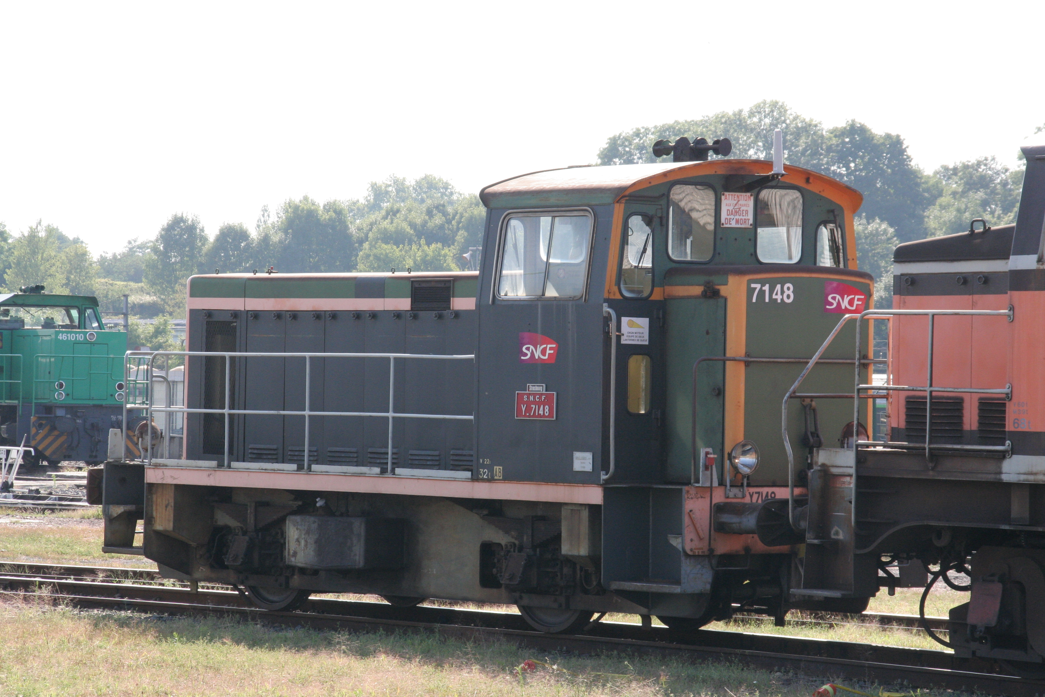 Diesel locomotive of SNCF, Strasbourg